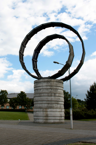 Sculpture to commemorate film director James Whale, in Dudley, England.